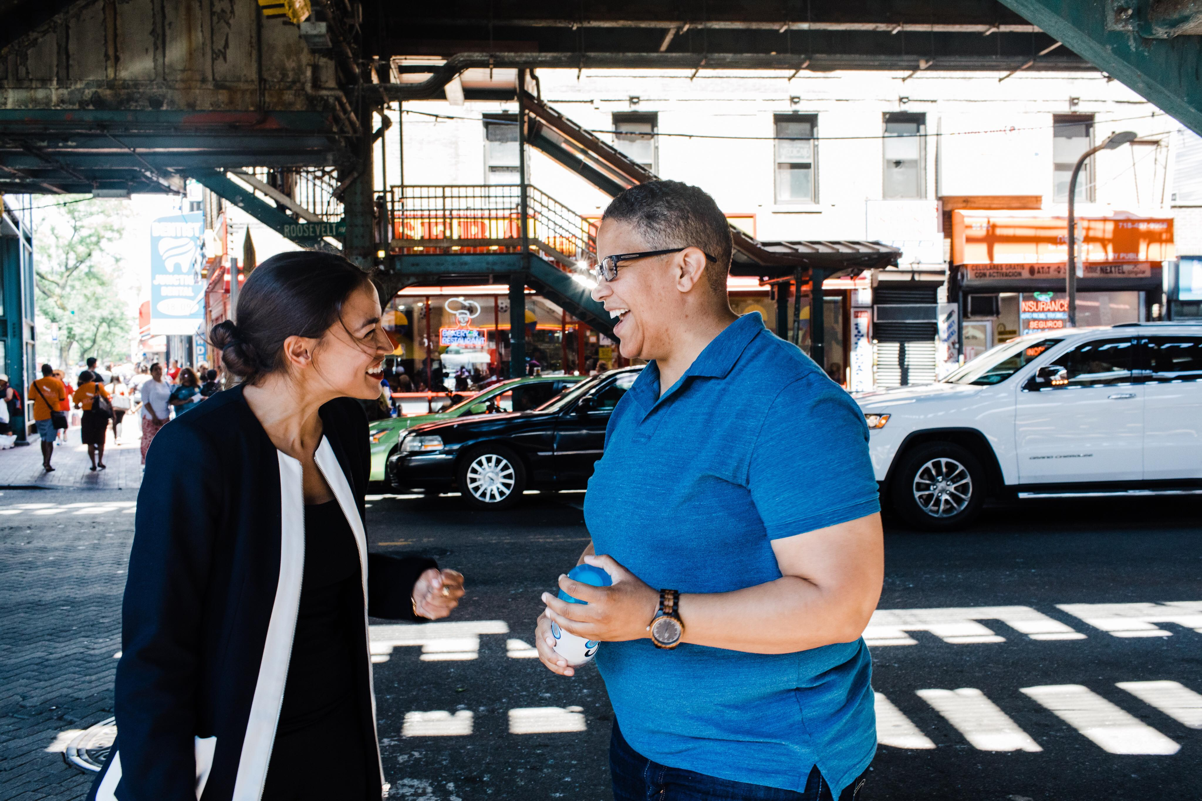 Kerri Evelyn Harris and Alexandria Ocasio-Cortez.